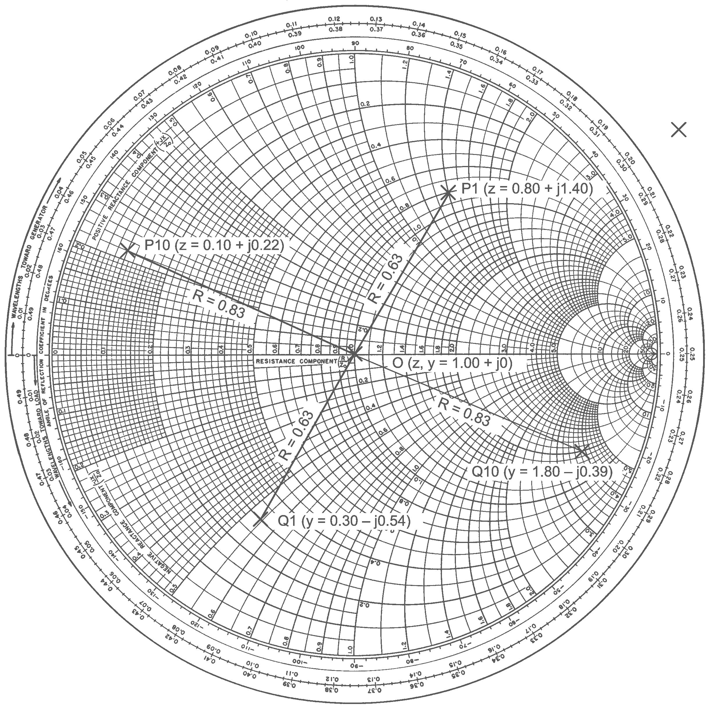 Smith chart